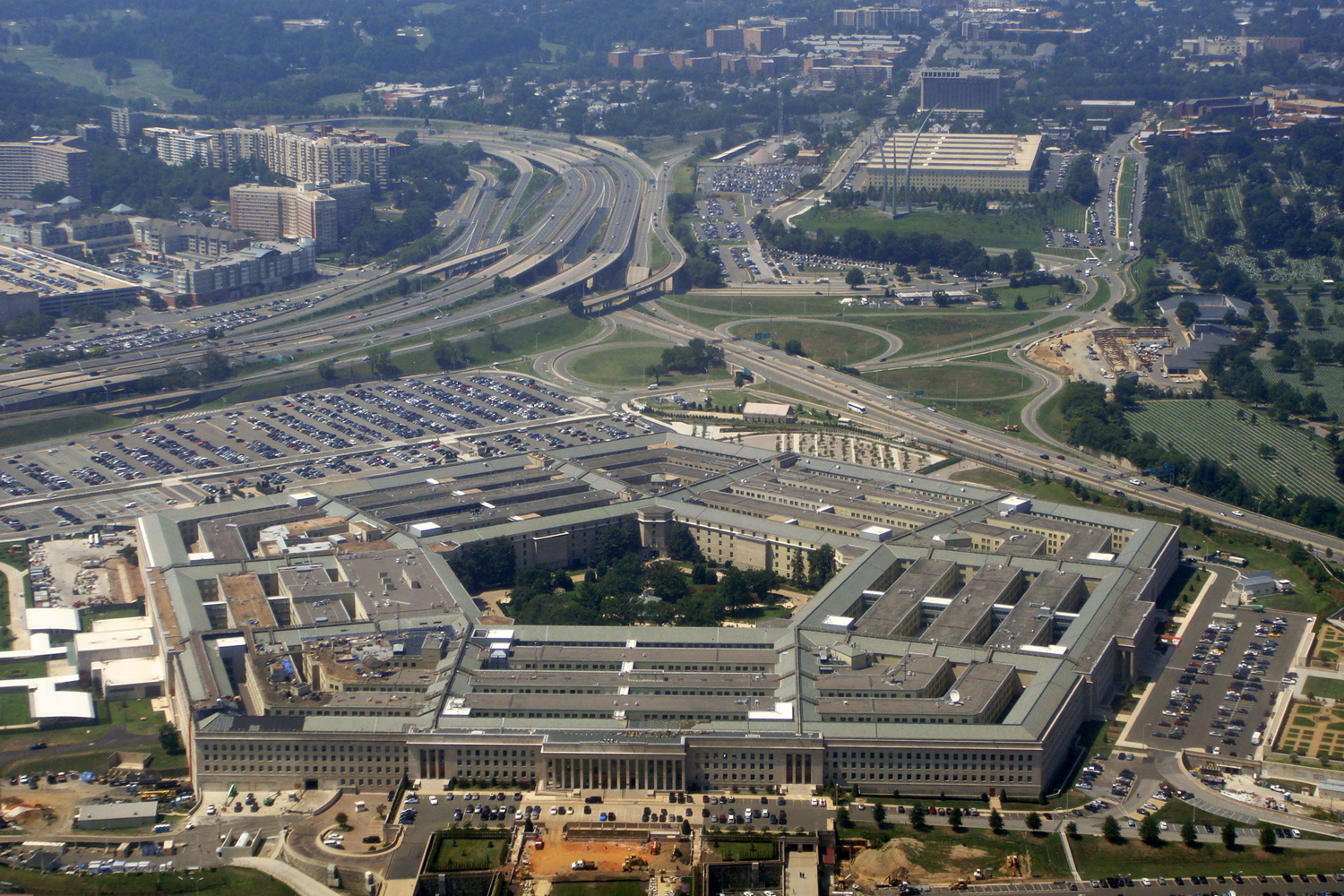 Aerial view of The Pentagon, Arlington, Virginia